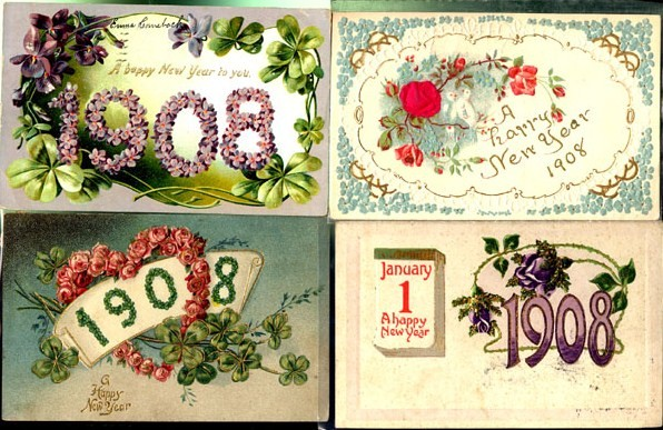 Picture sides of four postcards sent in the United States for New Year's Day, 1908, all with flowers, all were mailed. eBay store Web page states: "Mailed 1907 , 1907 , 1907 , 1908 [...] standard size ( aprox 3 1/2" x 5 1/2 ") [...] 1 Tucks Card"